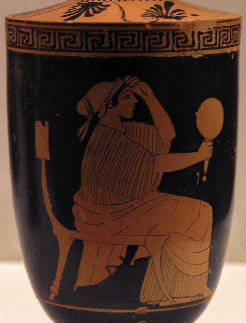 Sated woman holding a mirror. Attic red-figure lekythos by the Sabouroff Painter, ca. 470-460 BC. From Velanideza. National Archaeological Museum in Athens, 1624.